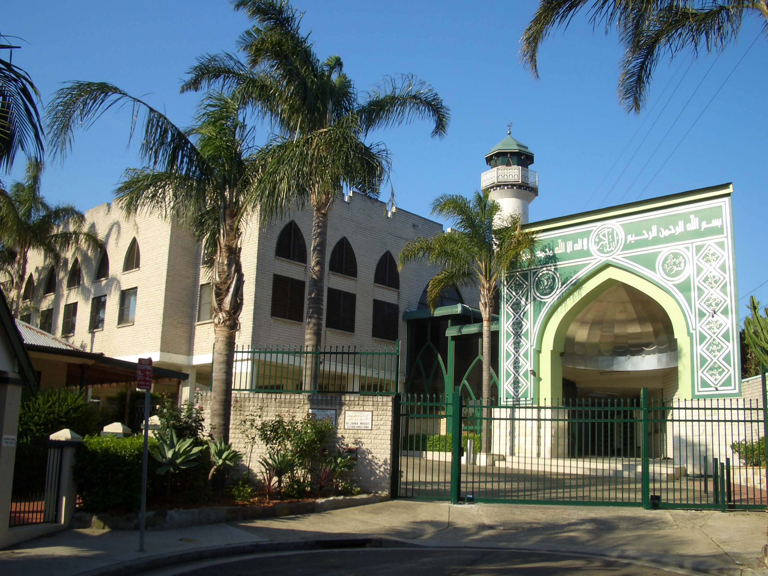 Al-Zahra Arncliffe Mosque. On the facade can be seen the names of the 12 Imams - six on each side.